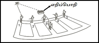 Trap shooting